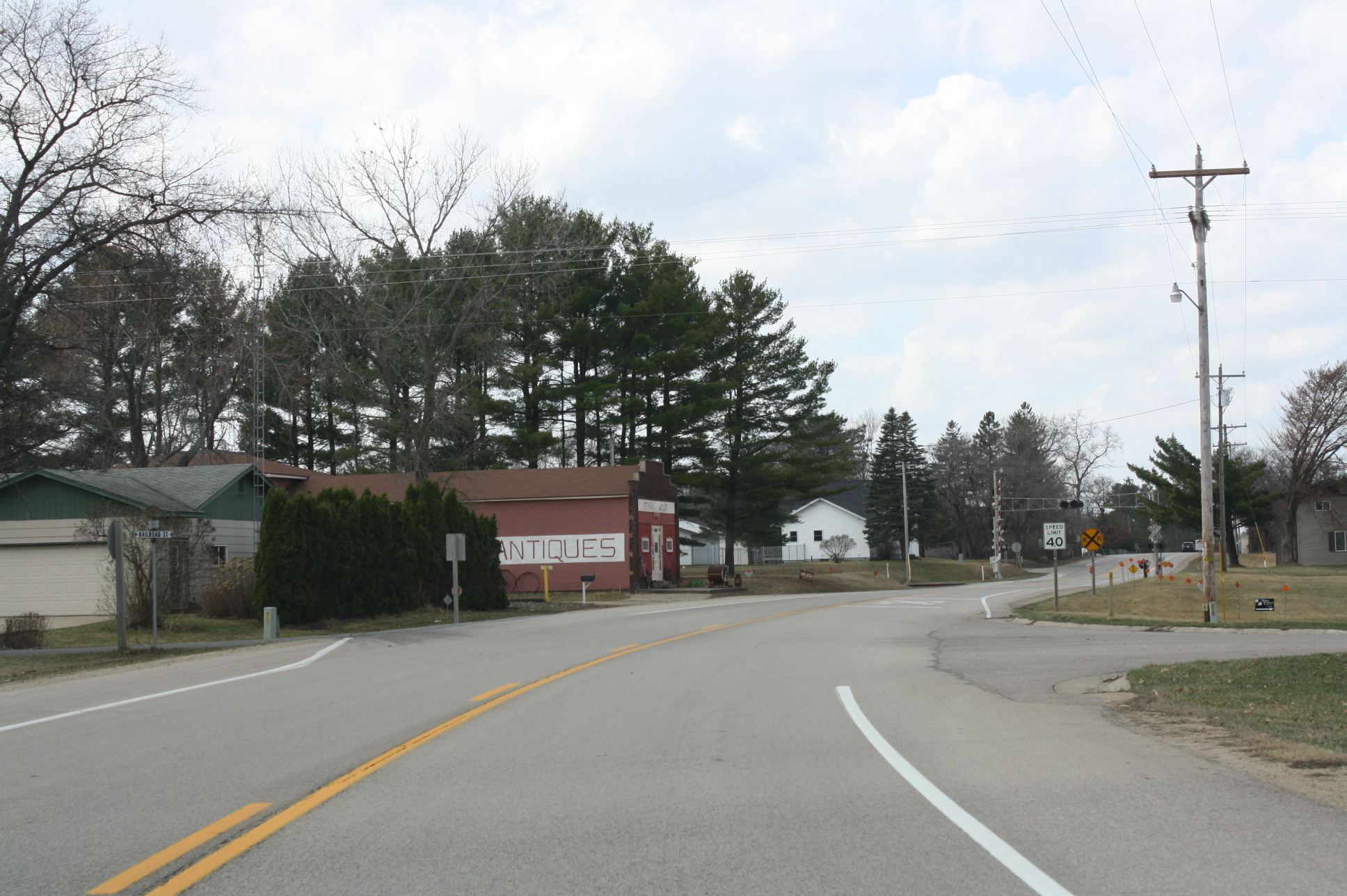 Looking west in downtown Wyeville, Wisconsin on Wisconsin Highway 21.